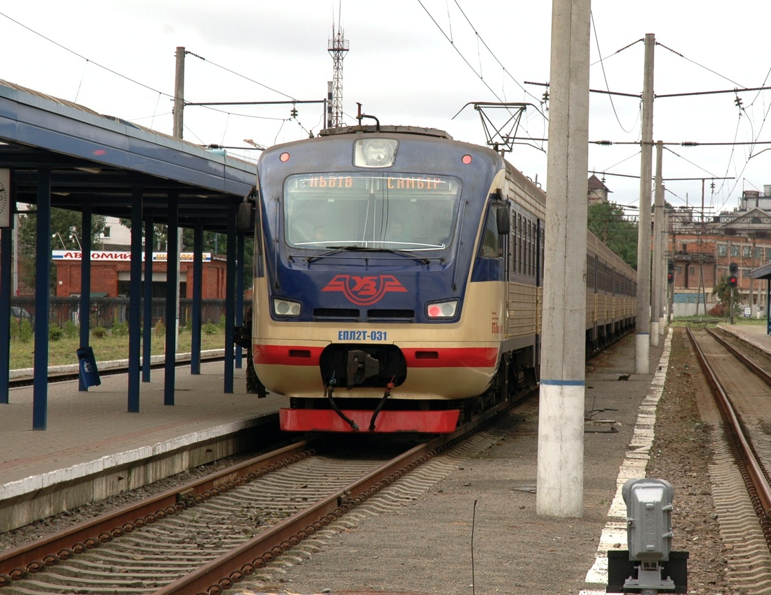 Ukrainian EPL2T electric multiple unit in Lviv